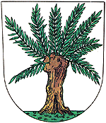 Municipal coat of arms of Vidnava, Jeseník District, Czech Republic.